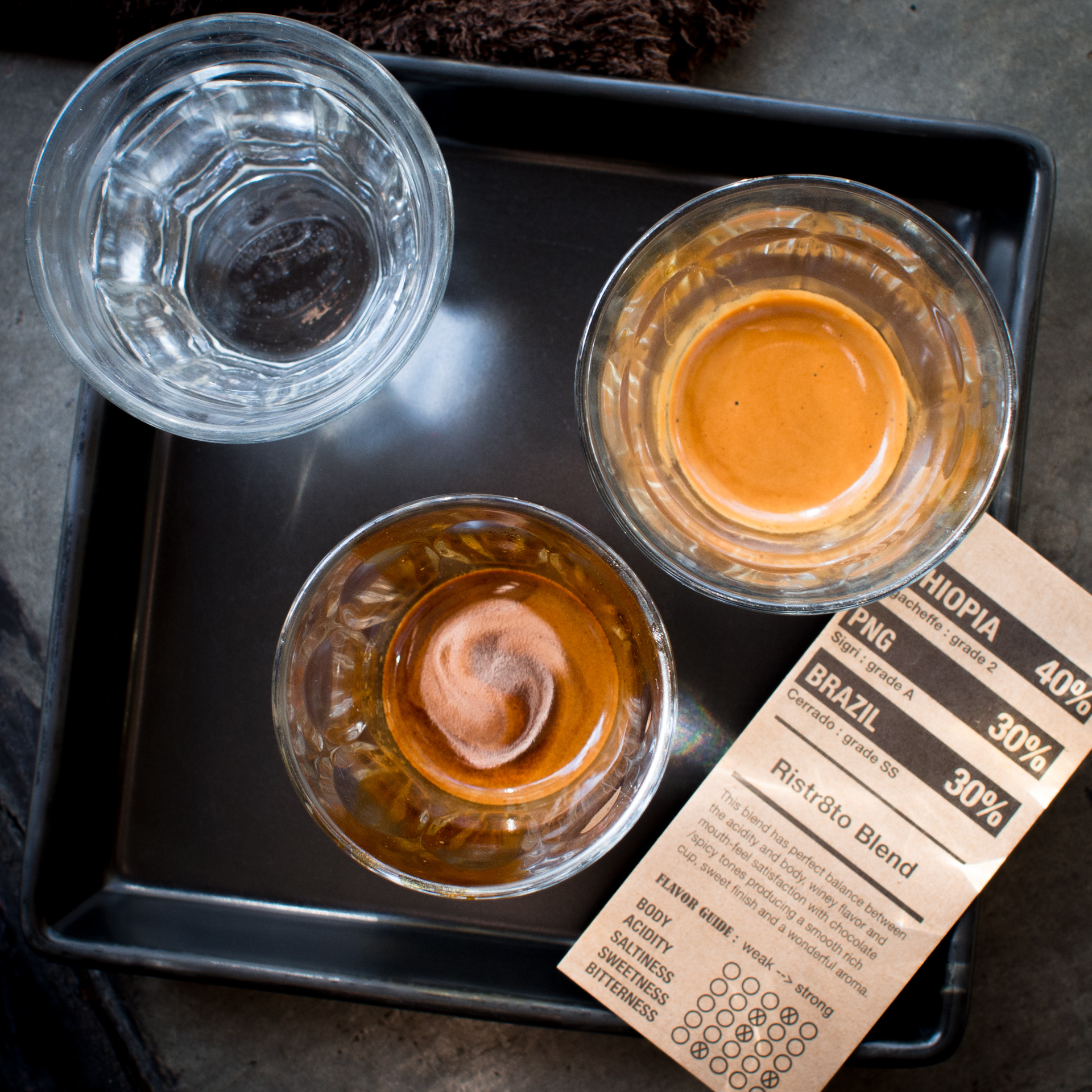 A ristretto doppio in Chiang Mai, Thailand. The cup at the bottom of the image contains the first half, and the cup on the right contains the second half of a standard single shot espresso.